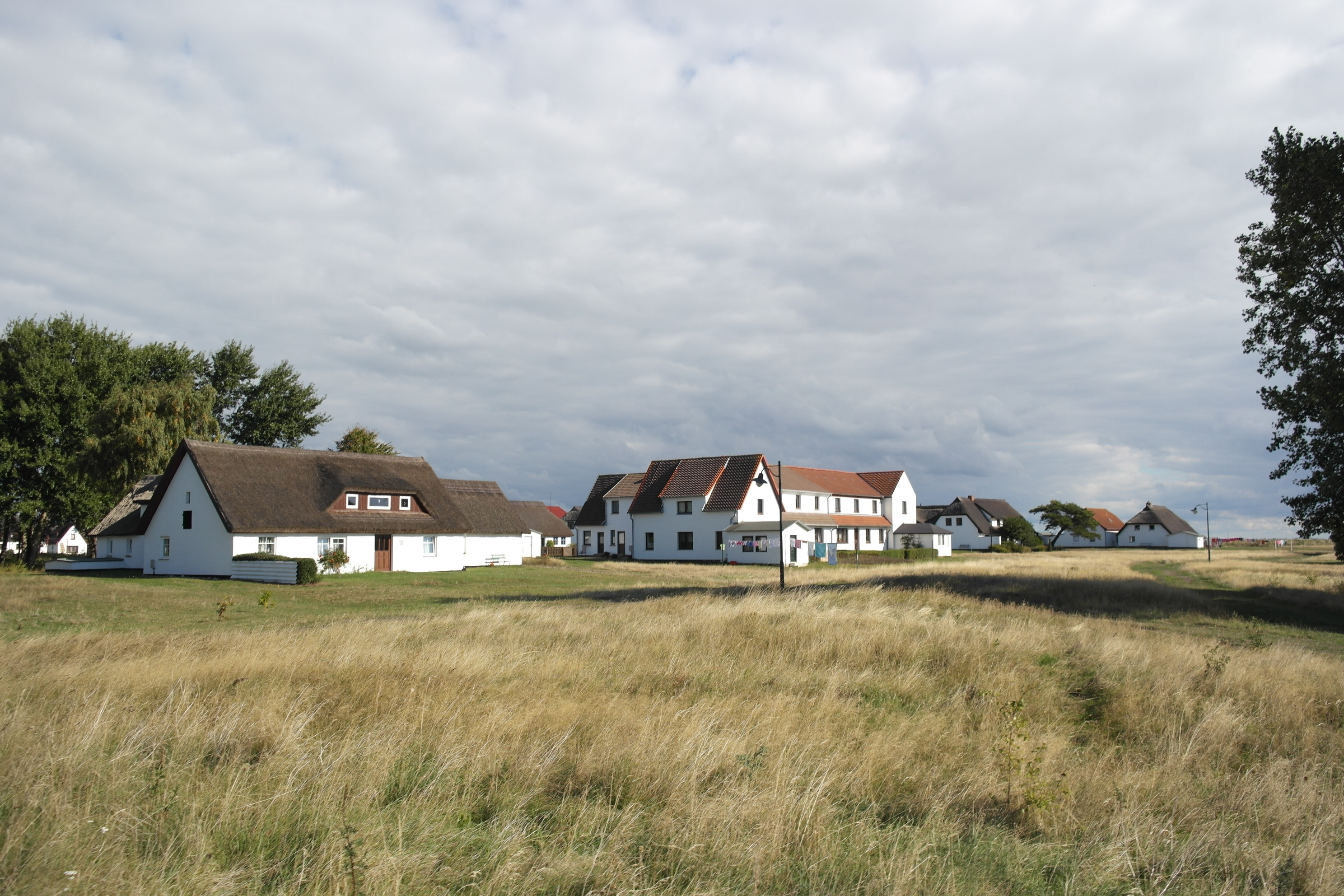 The village of Neuendorf on the island of Hiddensee is as an ensemble a cultural heritage due to its unique situation in the meadows.